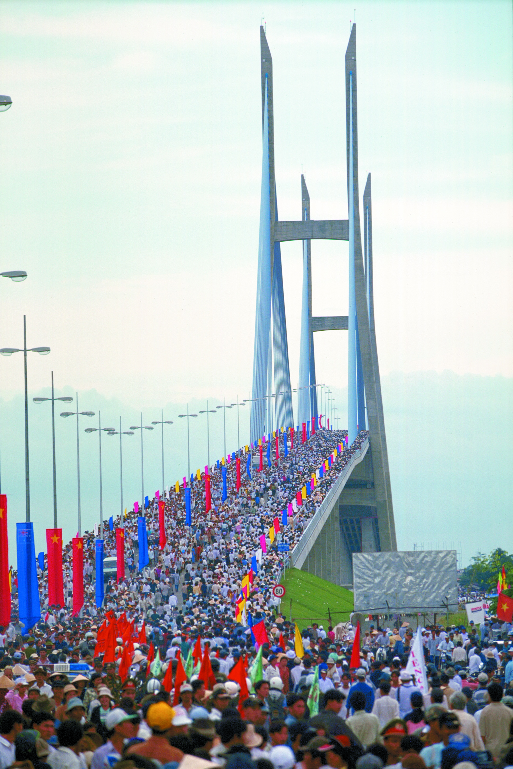 Openning of the My Thuan bridge, Vietnam 2007.